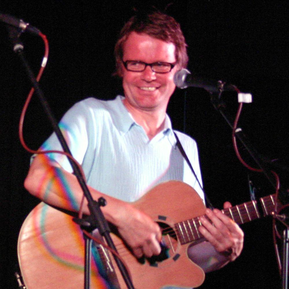 Boff Whalley of Chumbawamba at Whitby Musicport in 2008